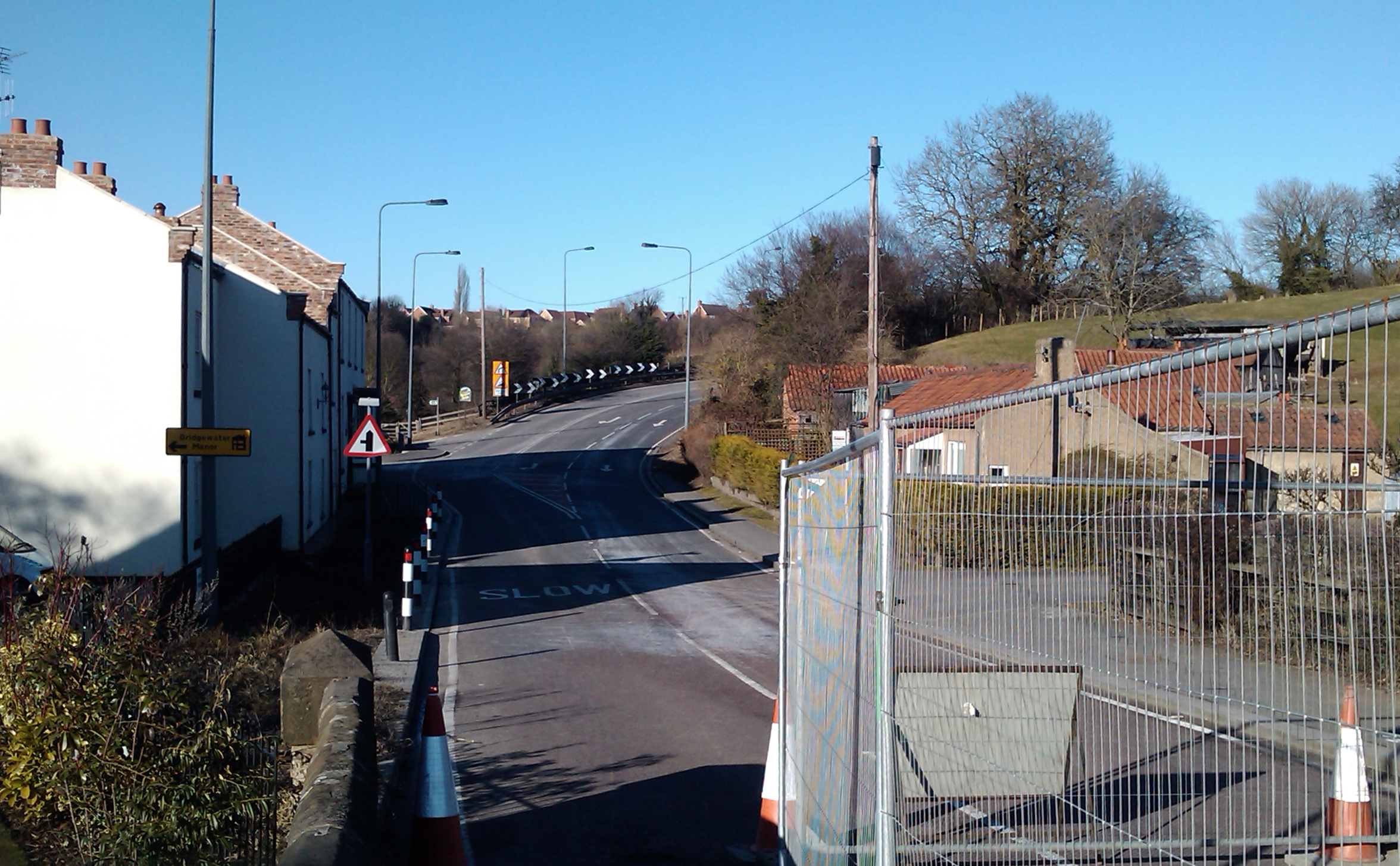 Low Leven while the bridge was closed for structural repairs.